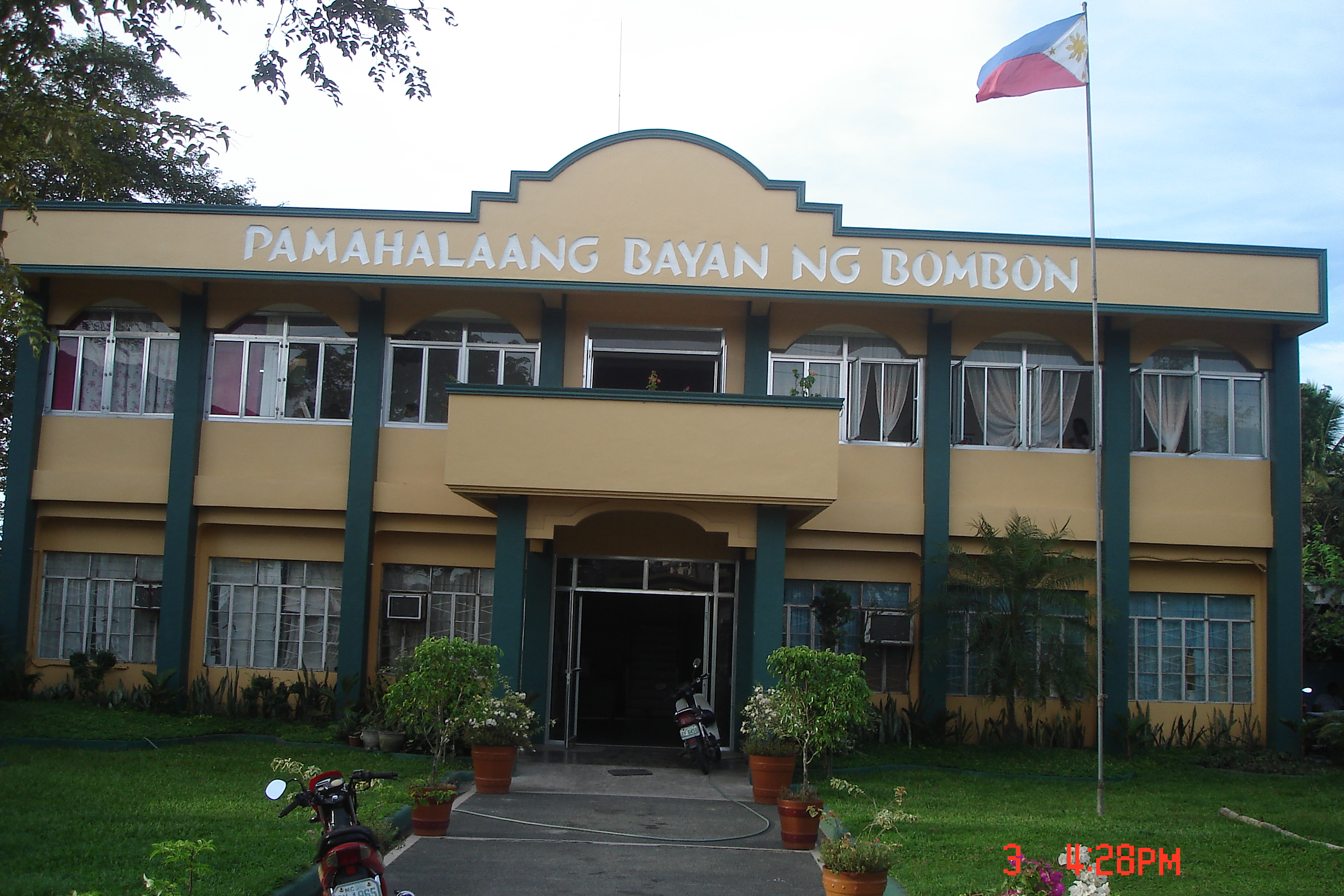 Municipal hall of Bombon, Camarines Sur, Philippines